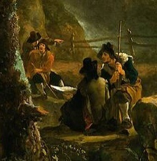 Italiaans landschap met tekenaar (detail)